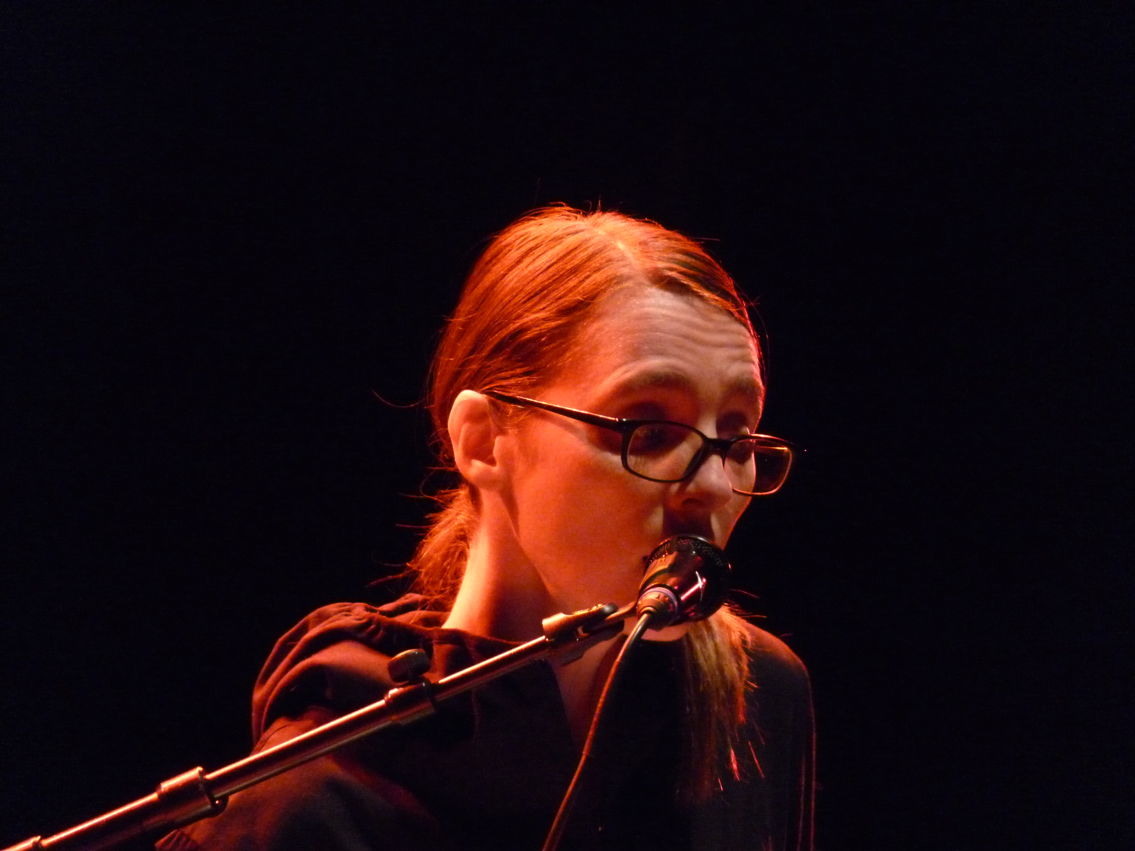 Antye Greie performing on April 23, 2010 at Queen Elizabeth Hall in London (together with Gudrun Gut, performing their album "Baustelle", see also File:Gudrun Gut - Baustelle - London - April 23 2010-1.jpg, File:Gudrun Gut - Baustelle - London - April 23 2010 -2.jpg).